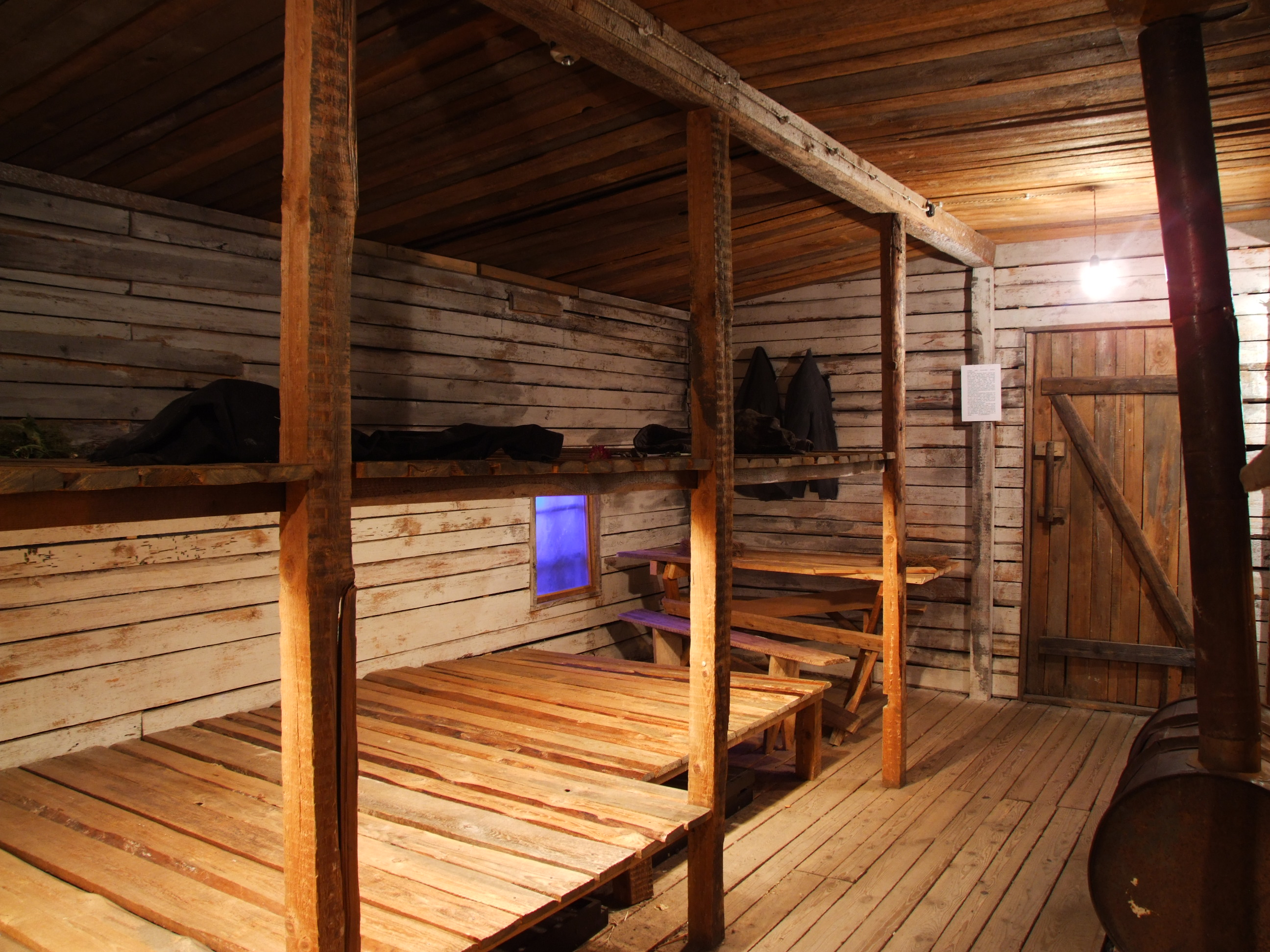 Shack from Gulag - reconstruction in Museum of the Occupation of Latvia. The picture does not say, how many people were crammed into such a shack...